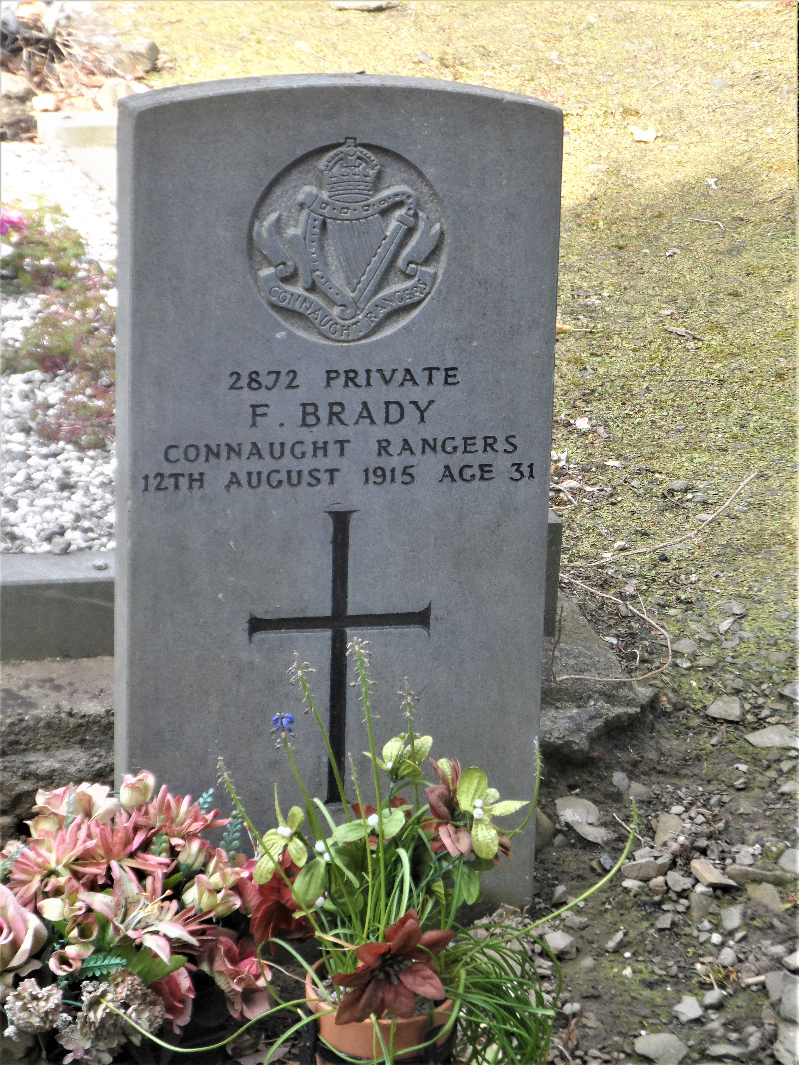 Connaught Rangers tombstone, Kells